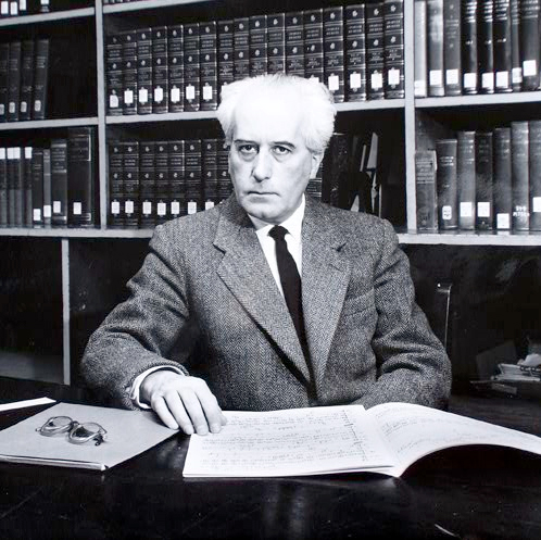 Sándor Veress in Baltimore 1966